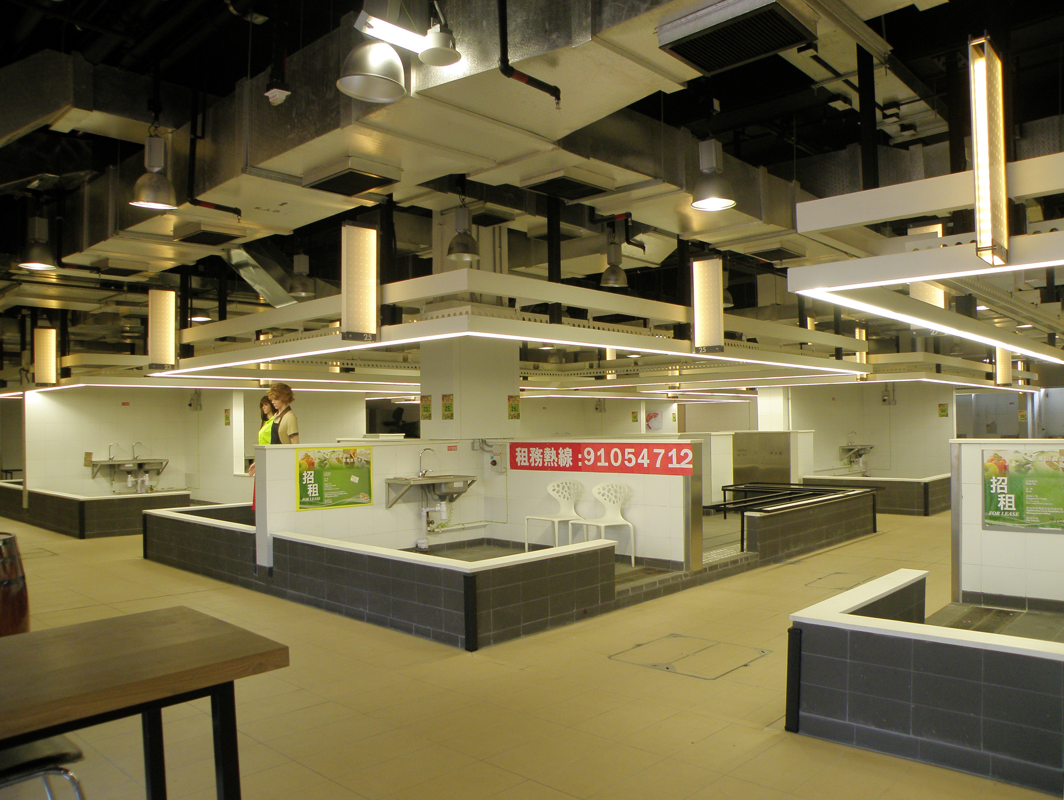 Hung Fuk Market in Hung Shui Kiu, Hong Kong.